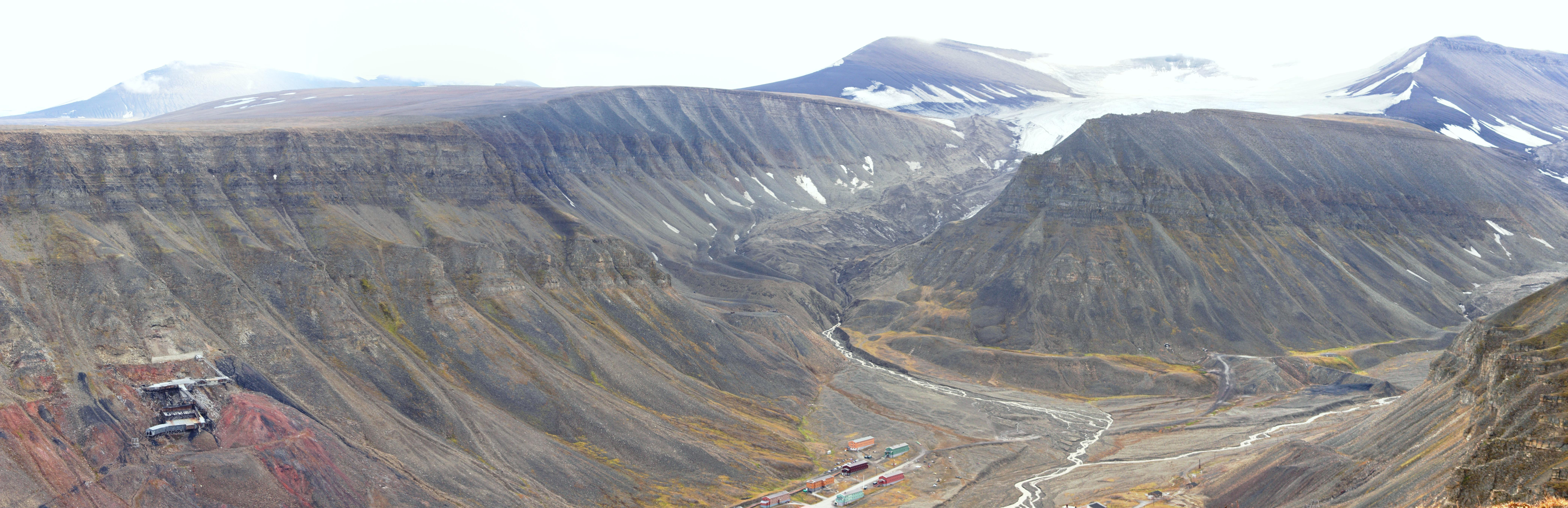 Lars glacier and Lars Hierta mountain, south of Longyearbyen. Mine No 2b to the left. Spitsbergen